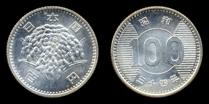 100yen-S34(current coin)